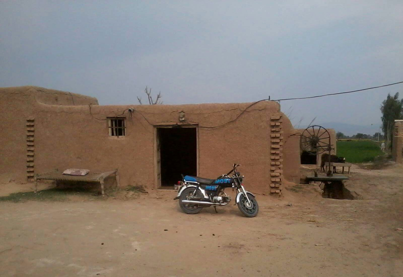 I also Uploaded this Photo on Botala Facebook Page & on website